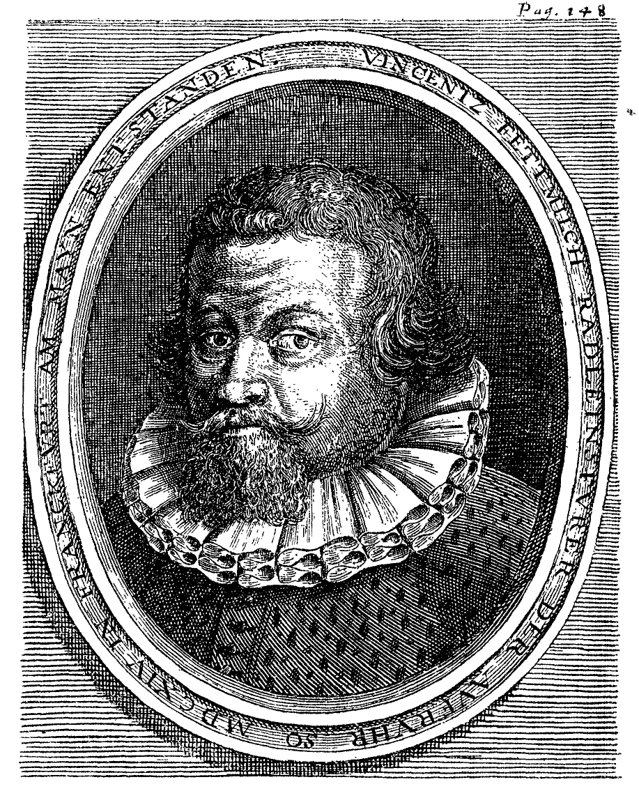 Vinzenz Fettmilch (1565/70-1616), one of the leaders of the anti-Jewish uprising in Frankfurt (Fettmilchaufstand), 1612-1614, Chalcography. Reproduced in Max Weinreich's "Shtaplen" (Berlin 1923, p. 141). The inscription reads: "VINCENTZ FETTMILCH RADLEINSFVRER DER AVFRVHR SO MDCXIV IN FRANCKFVRT AM MAYN ENTSTANDEN"